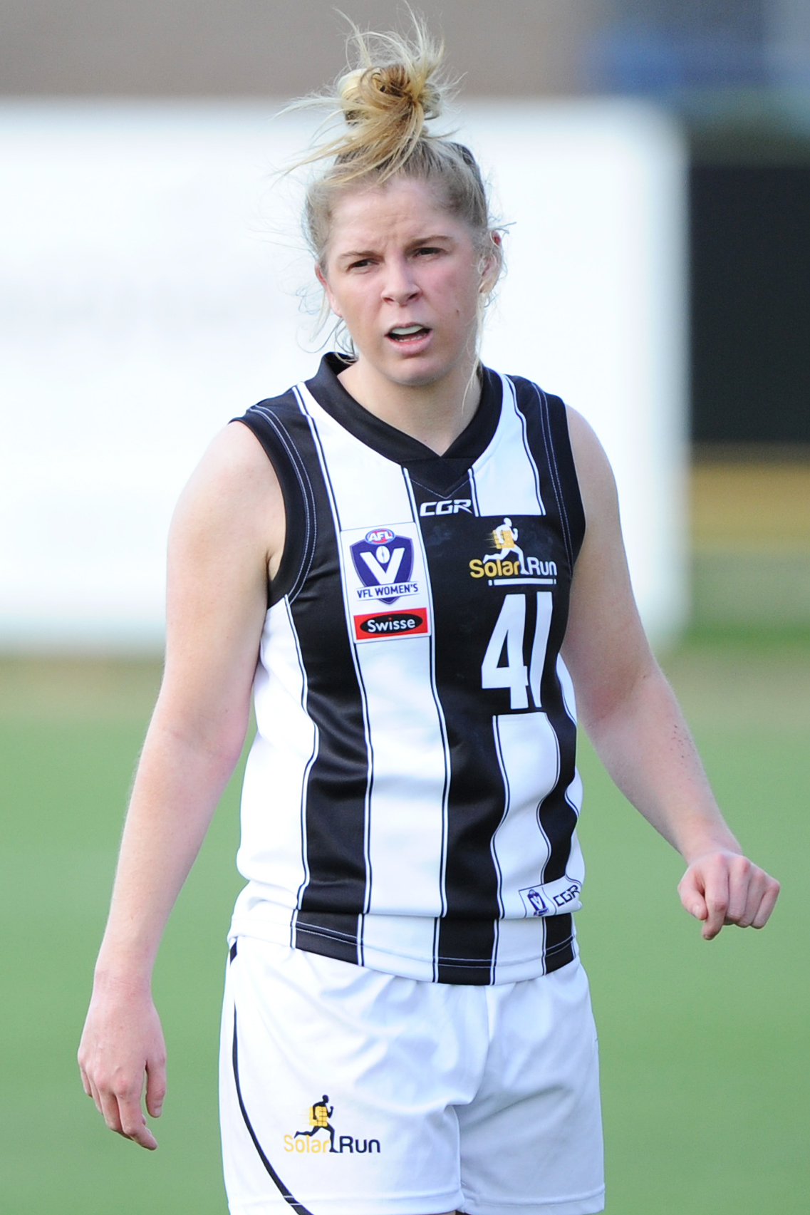 Kristy Stratton of Collingwood during the 2018 VFLW round 8 match between NT Thunder and Collingwood at TIO Stadium on Saturday, 30 June 2018 in Darwin, Australia.